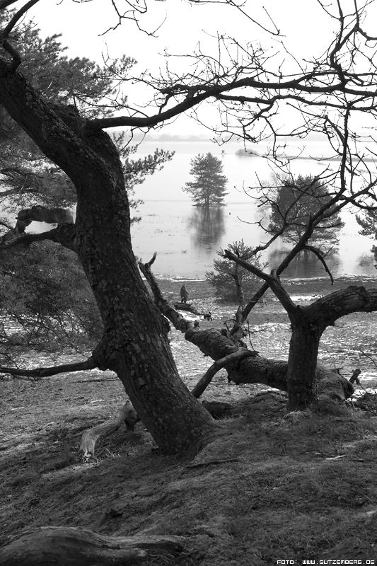 The nature reserve Bollenberg near Gothmann, Flood 2011